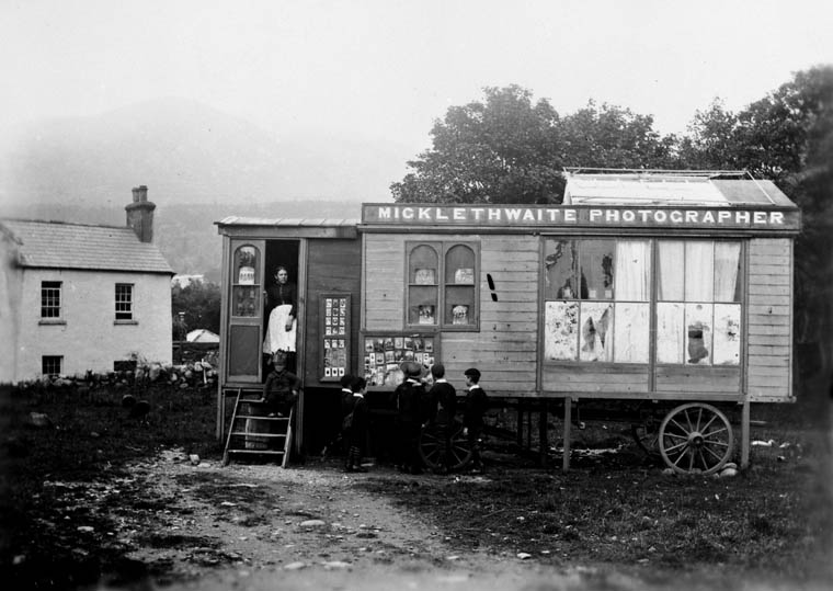 The travelling photography studio of William Barton Micklethwaite, father of F.W. Micklethwaite, in Ireland (possibly Newry, County Down). The wet collodion photography process, used at the time, required that the image be developed while the plate was still wet, thus giving rise to portable darkrooms such as this one. Possibly a young F.W. Micklethwaite sitting on the stairs, with his mother in the doorway. (See: Denison, John. Micklethwaite's Muskoka, p. 8. (Erin, Ontario: The Boston Mills Press, 1993). ISBN 9781550460698).